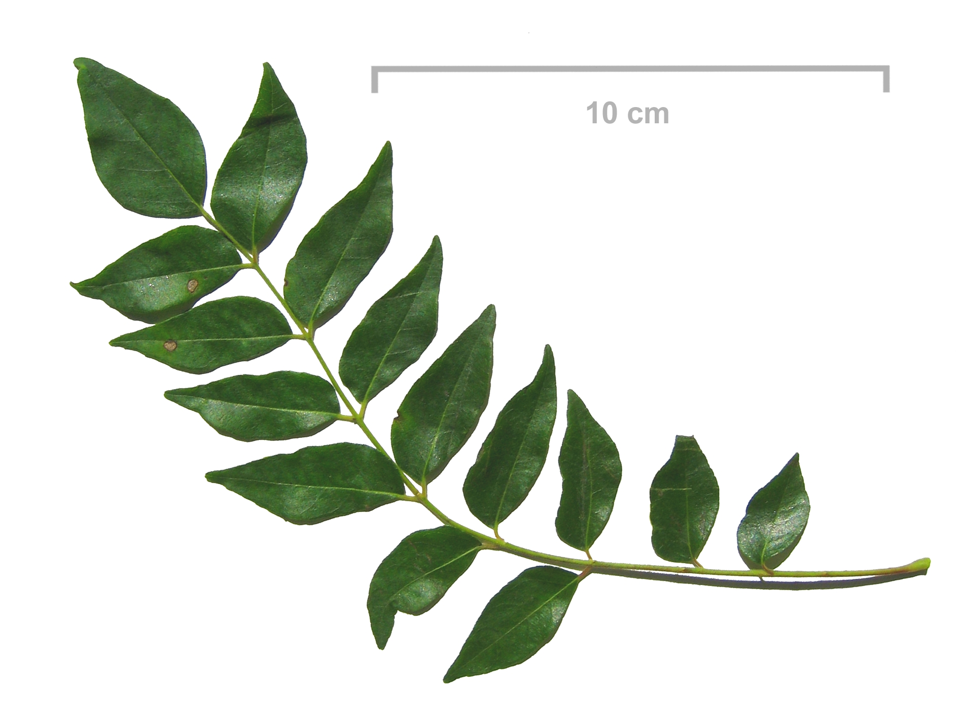 Curry leaves. Their taste differs vastly from curry spice mixes. scientific: Murraya koenigii.